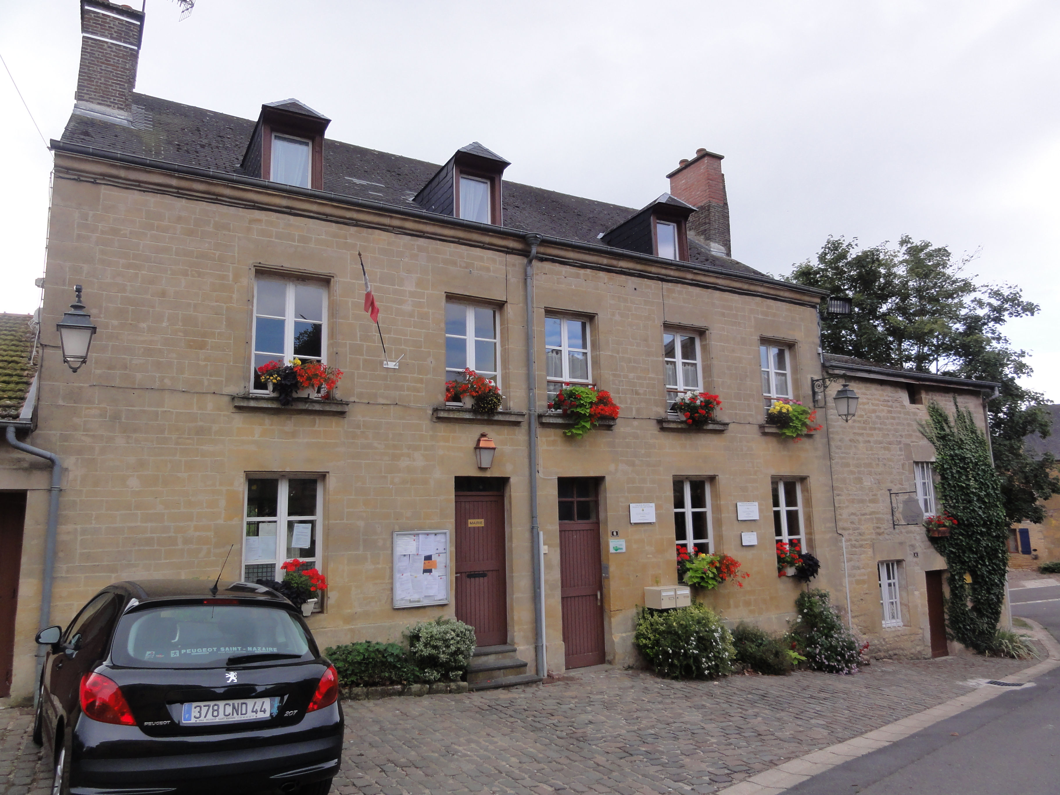 Évigny (Ardennes) mairie